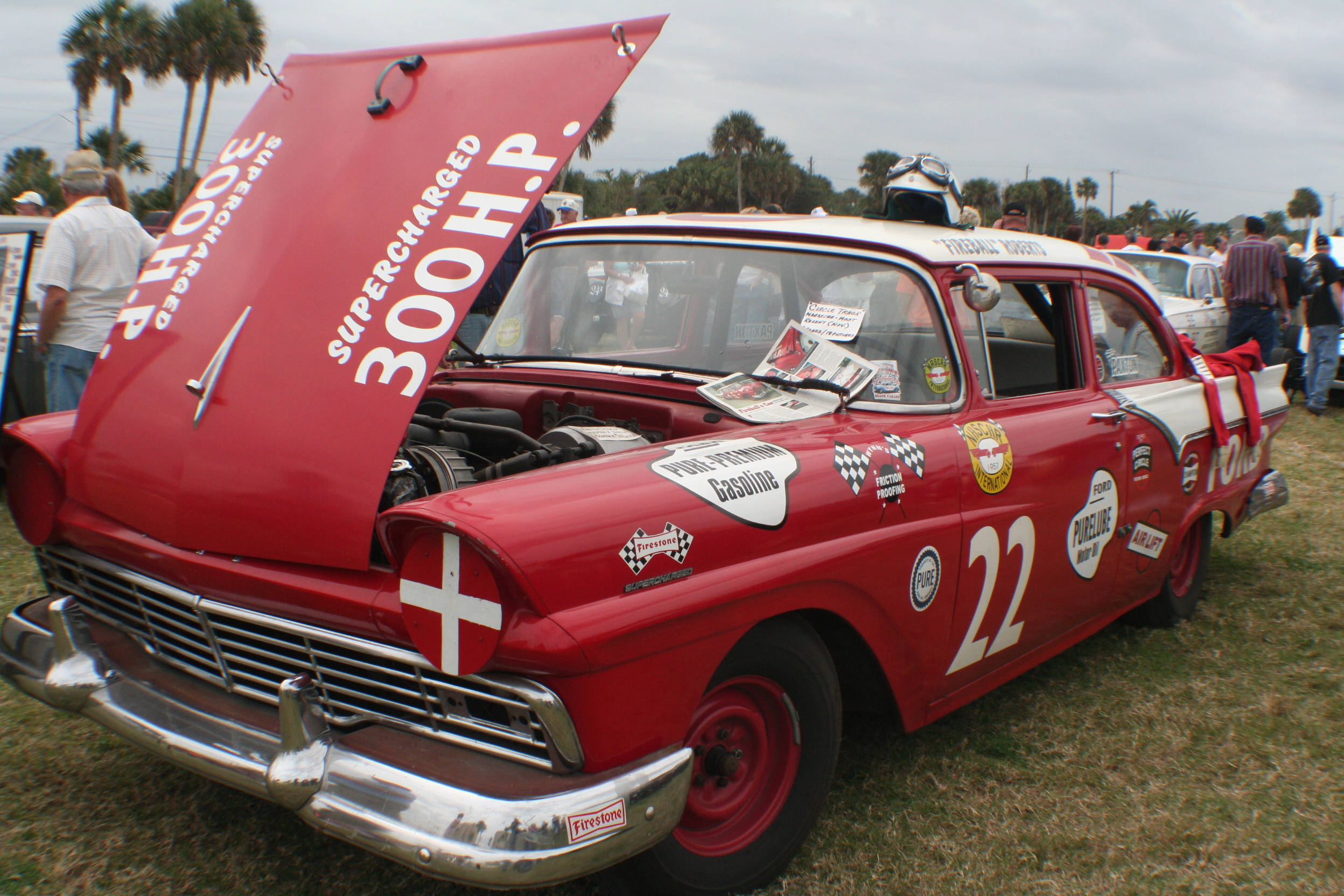 Shot by "The Daredevil" at Daytona during Speedweeks 20081957 Fireball Roberts Ford